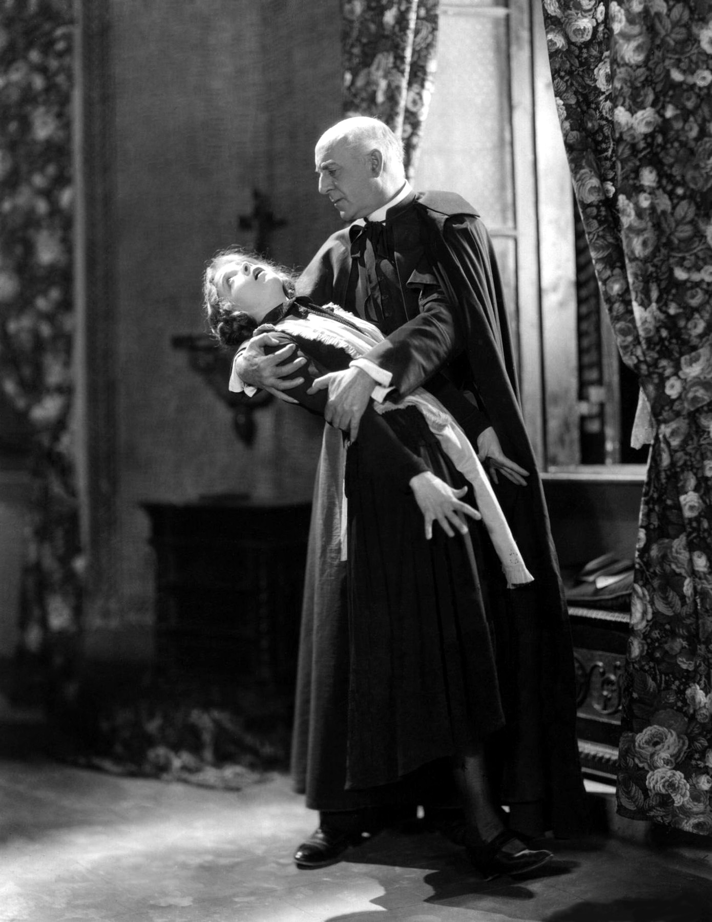 J. Barney Sherry and Lillian Gish in The White Sister (1923), a film directed by Henry King.